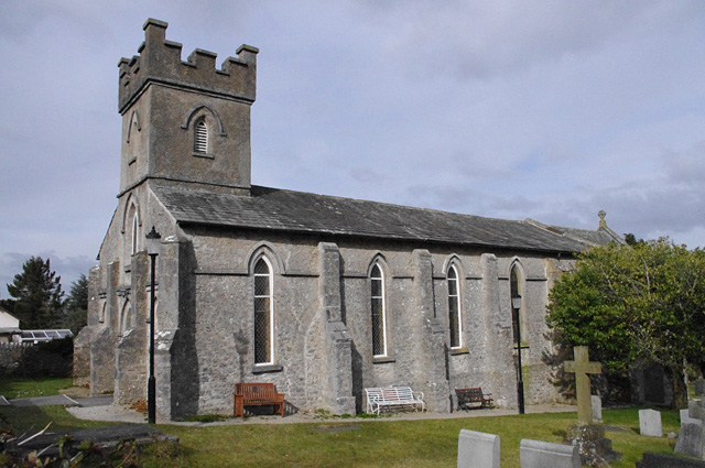 Parish church of St John the Evangelist, Yealand Conyers, Lancashire, seen from the southwest